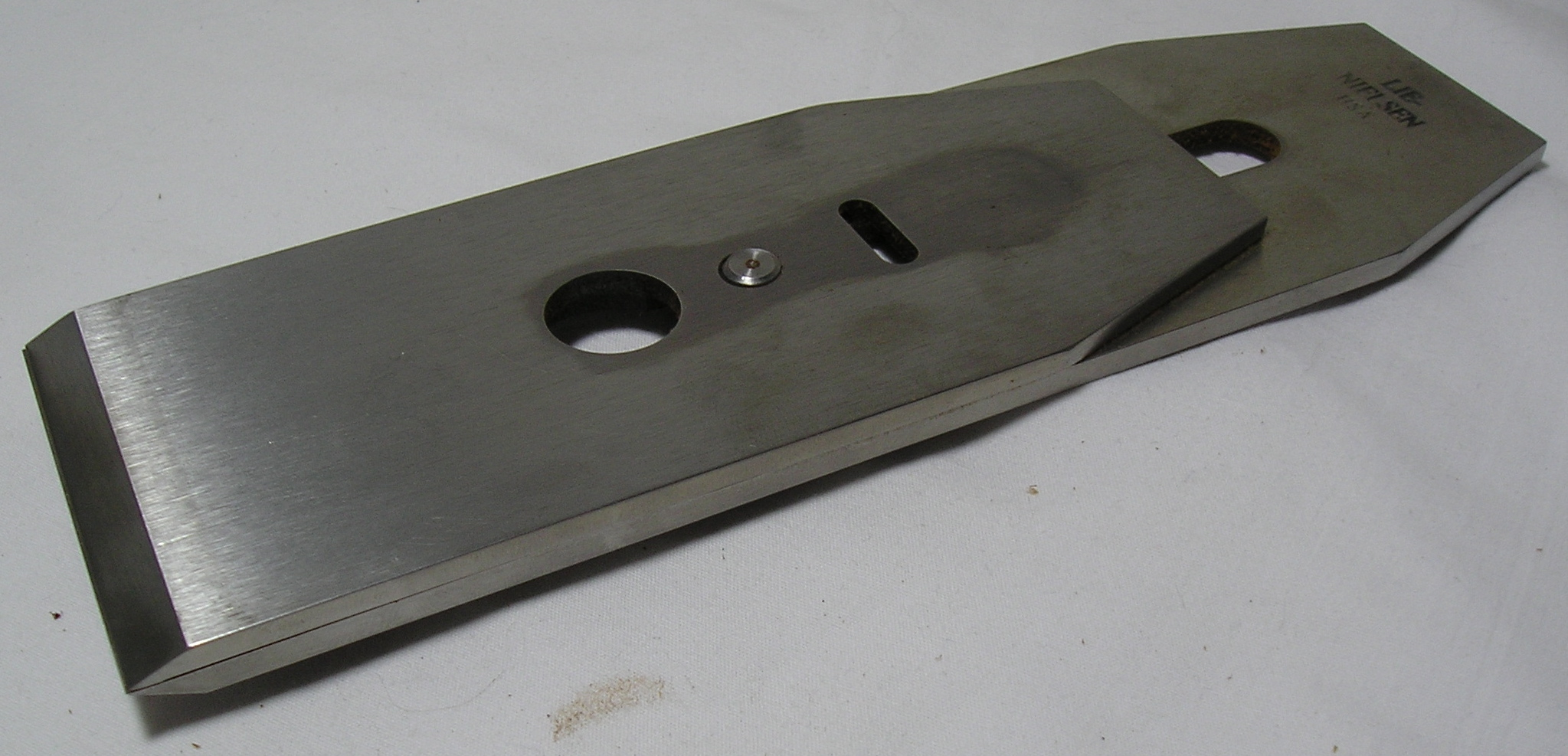 Bench plane iron with chipbreaker set very close.